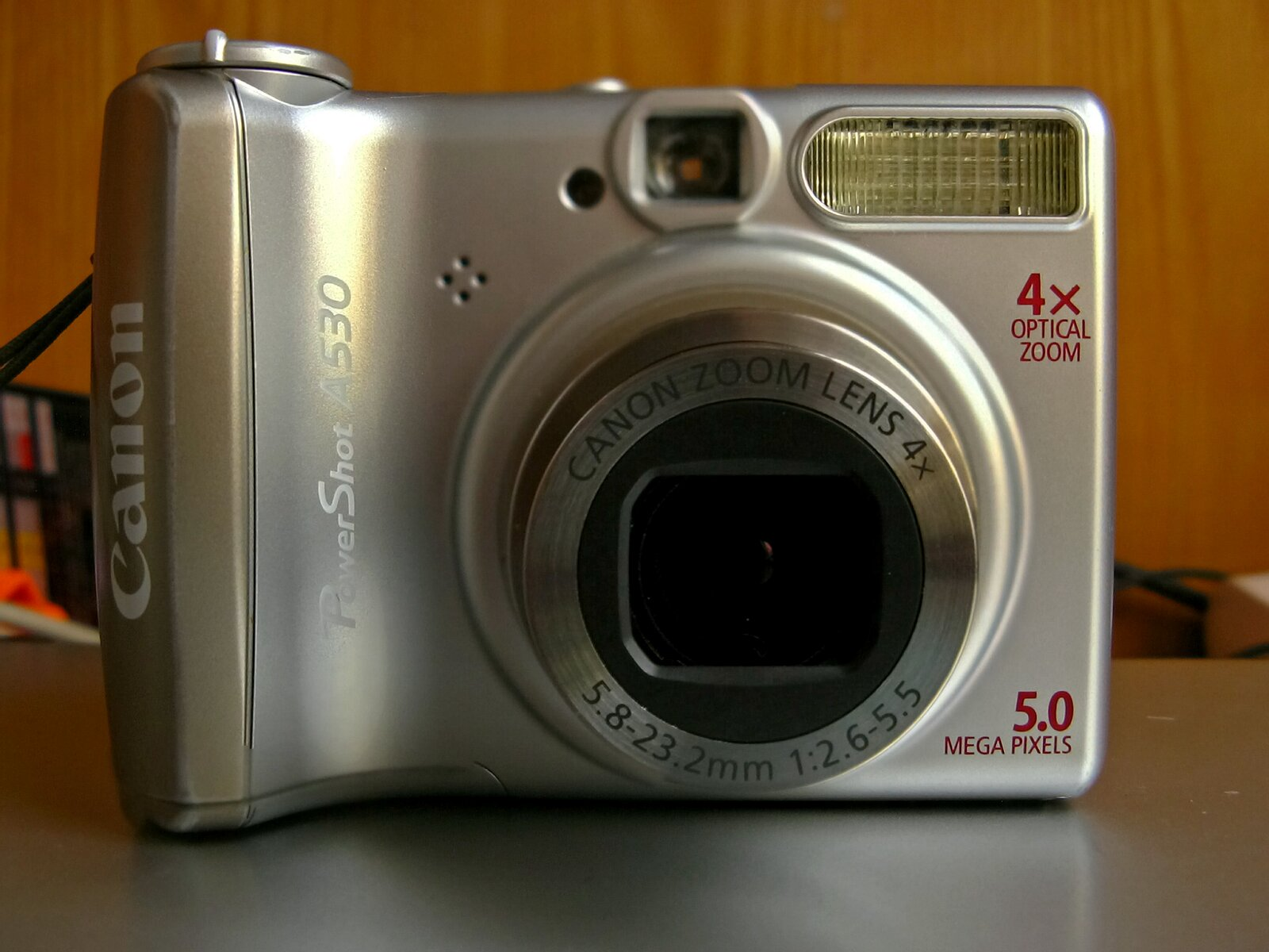 Canon PowerShot A530